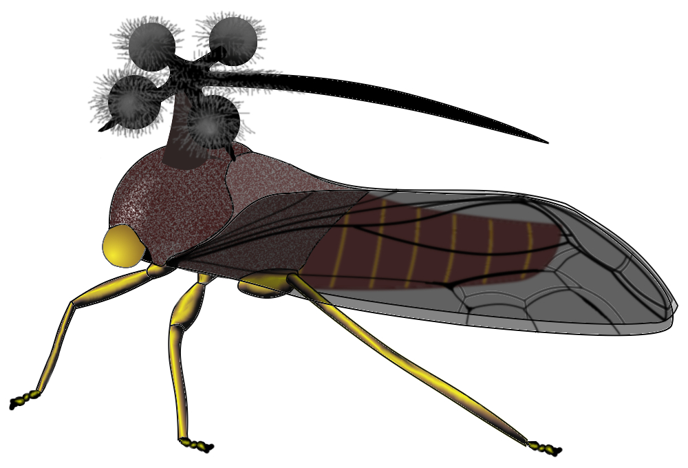 A drawing of Bocydium globulare (Hemiptera: Membracidae)